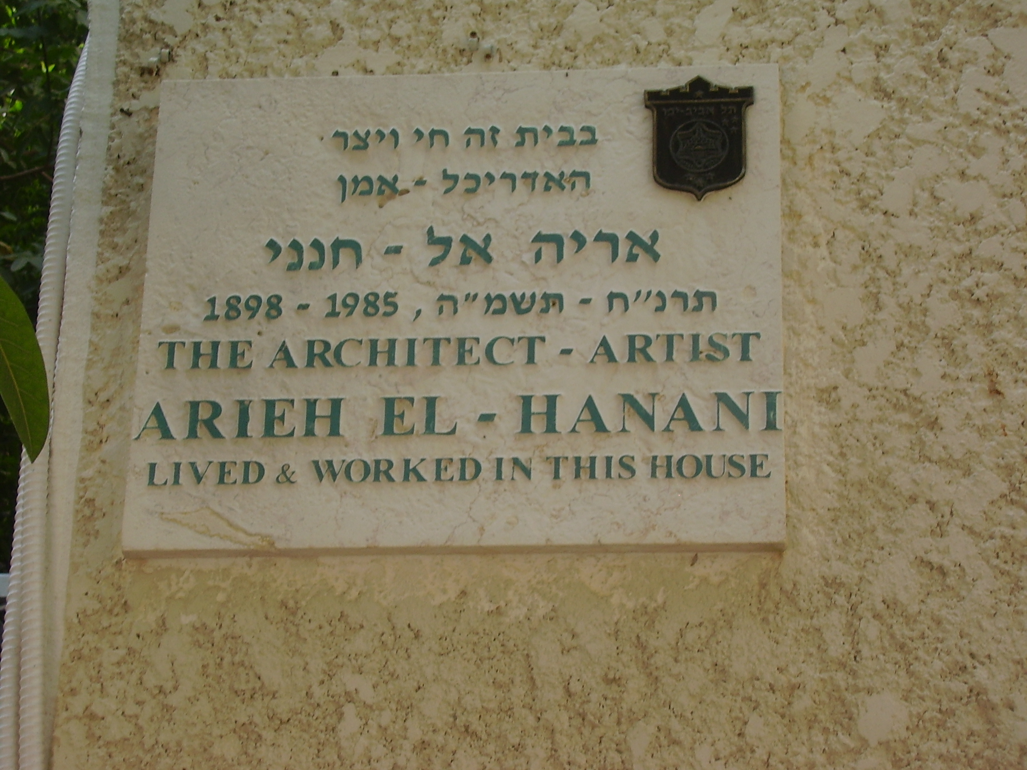 Memorial plaque on the house of the architect Arieh El-Hanani in Tel Aviv לוחית זיכרון על ביתו של הארכיטקט אריה אל-חנני ברח' לסל 10 בתל אביב